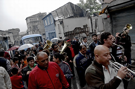 Roma people in Istanbul.